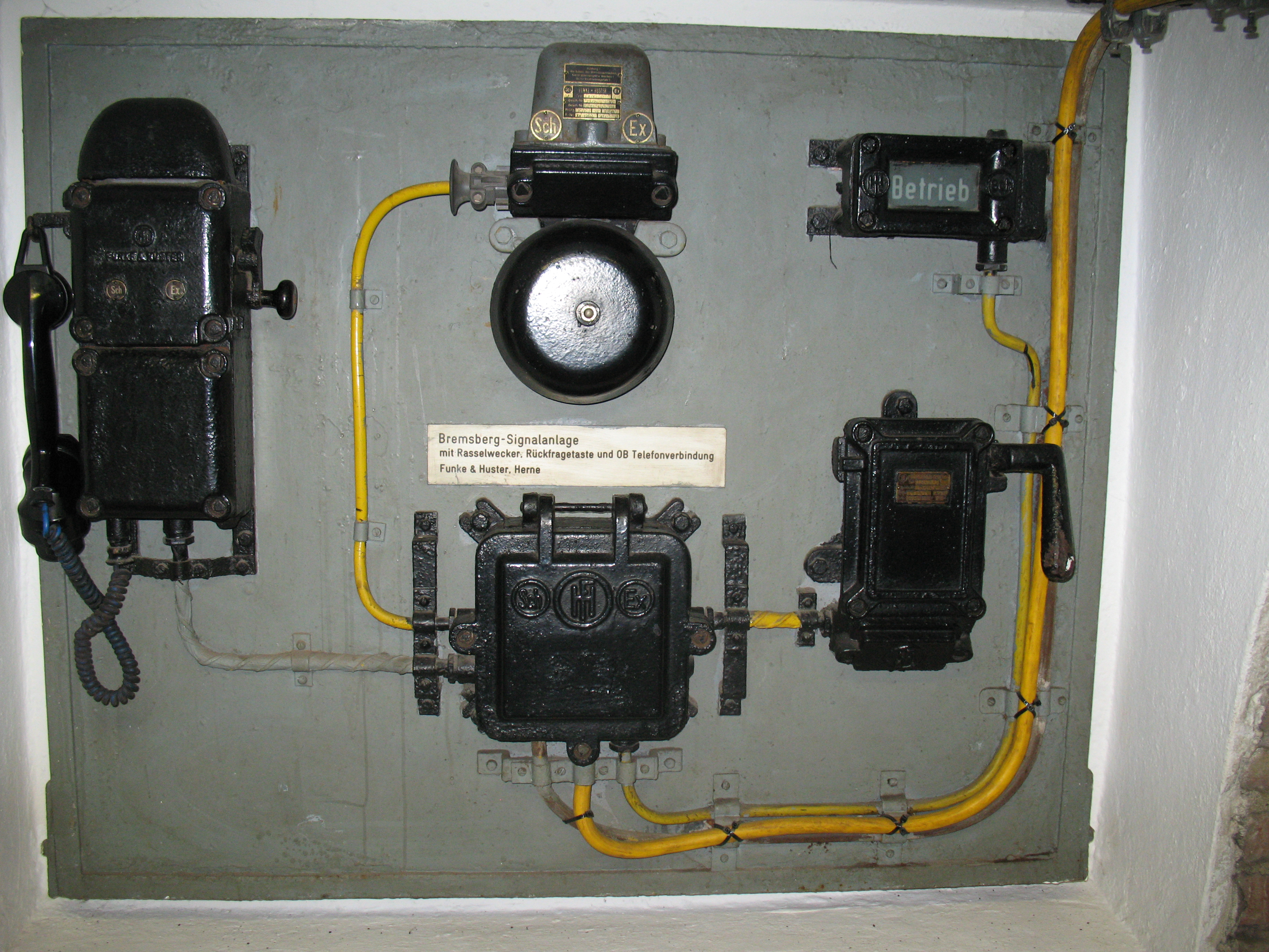 Bremsberg signal system, German Mining Museum in Bochum